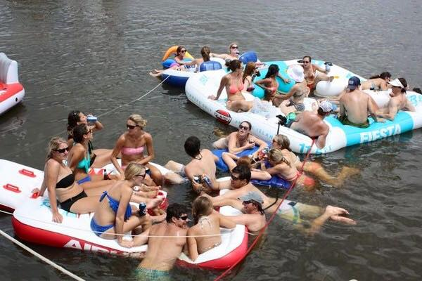 Dockvillers socializing and lounging on floats.